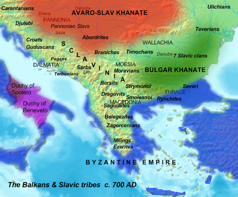 Presence of South Slavic tribes c. 700 (early version of work)